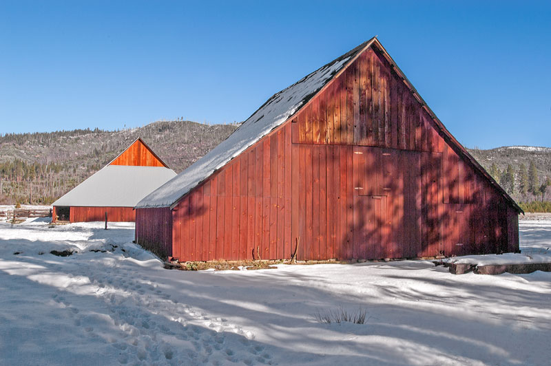 McCauley and Meyer Barns, North of El Portal in Yosemite National Park